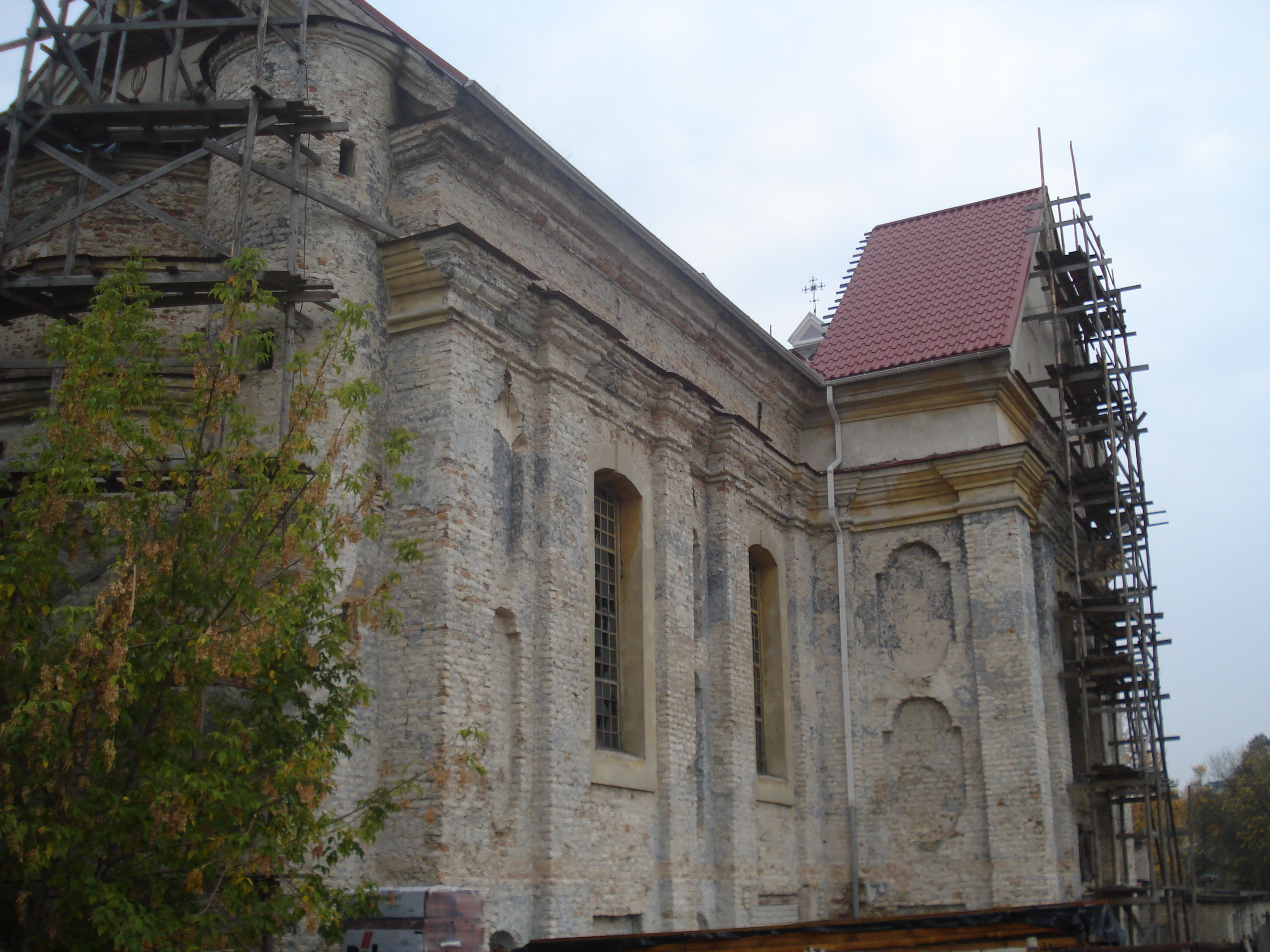 Church of Saint Stephen in Vilnius